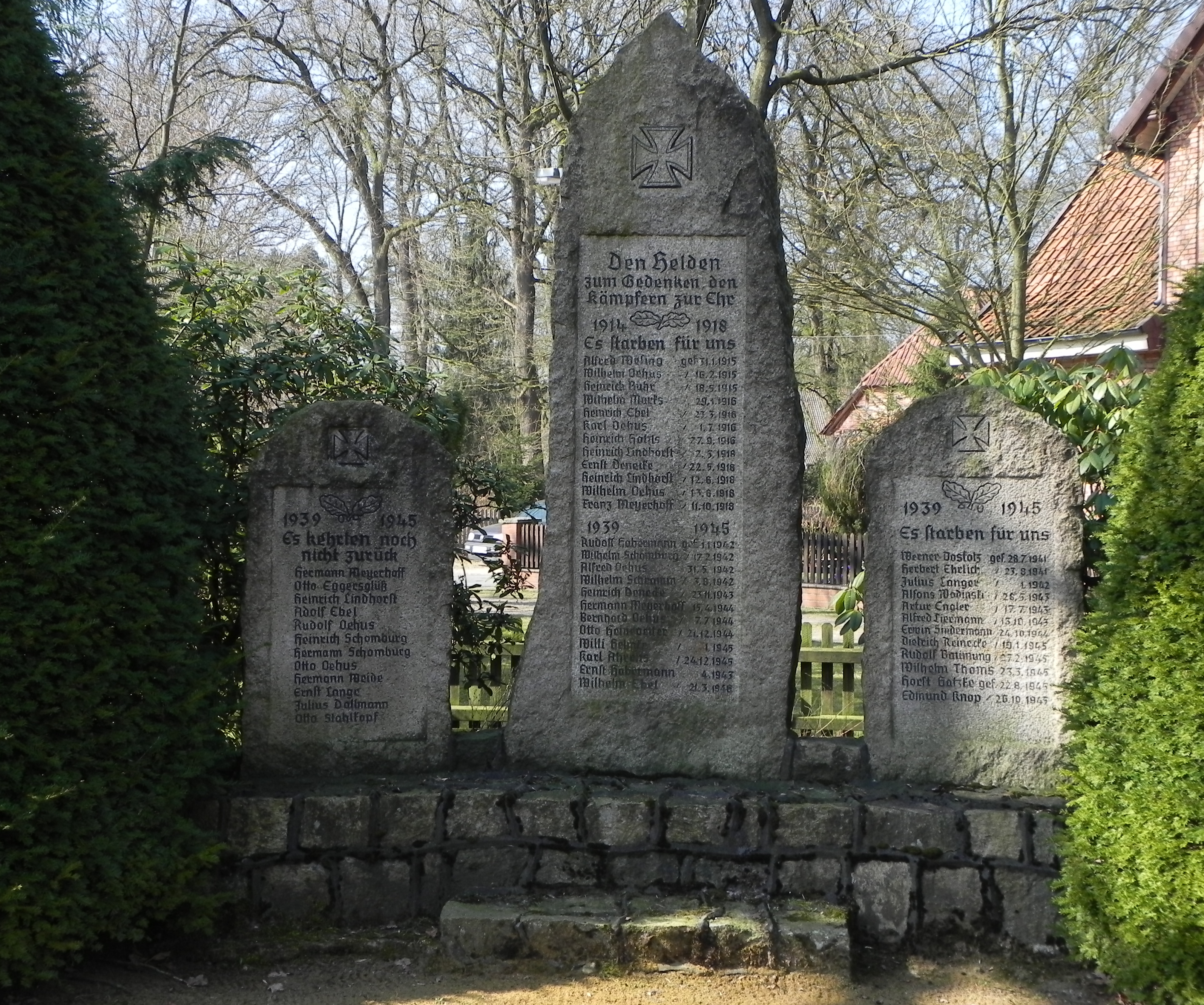 World War I and World War II War memorial in Becklingen, Niedersachsen, Germany